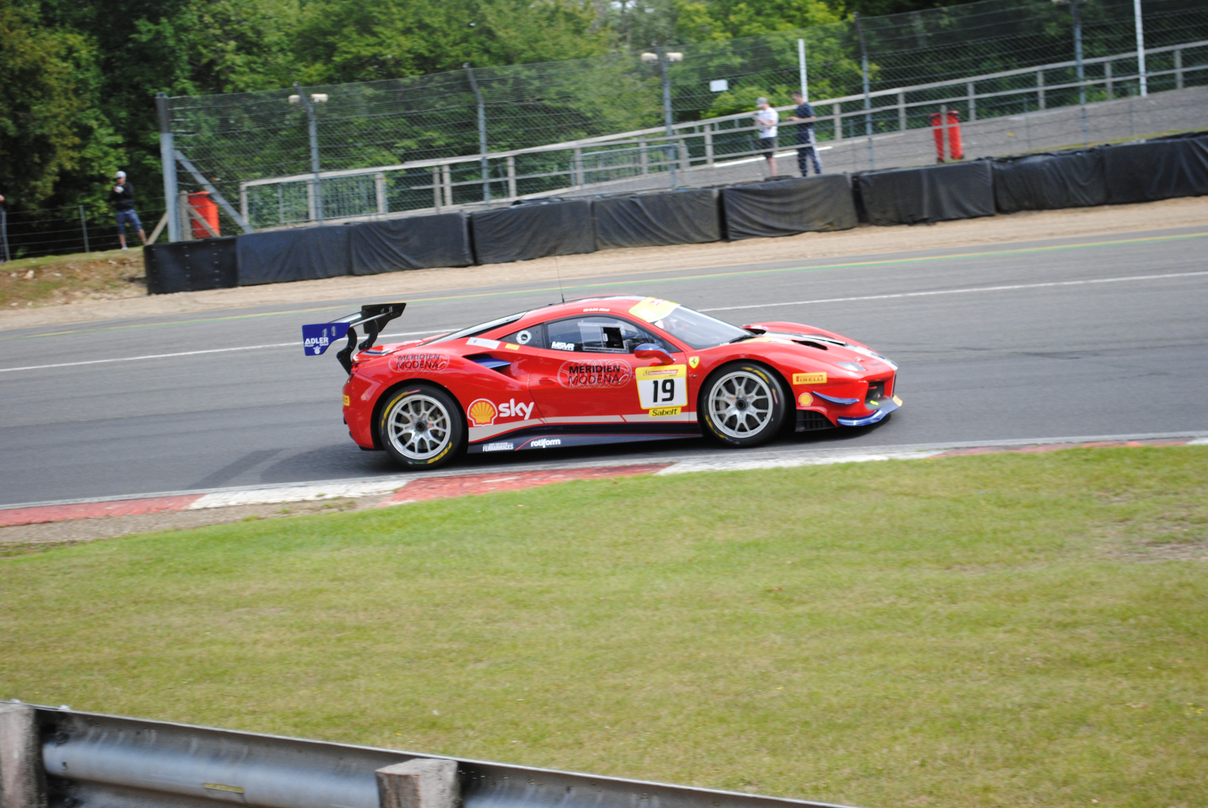 Graham de Zille competing in the Ferrari Challenge UK at Brands Hatch.